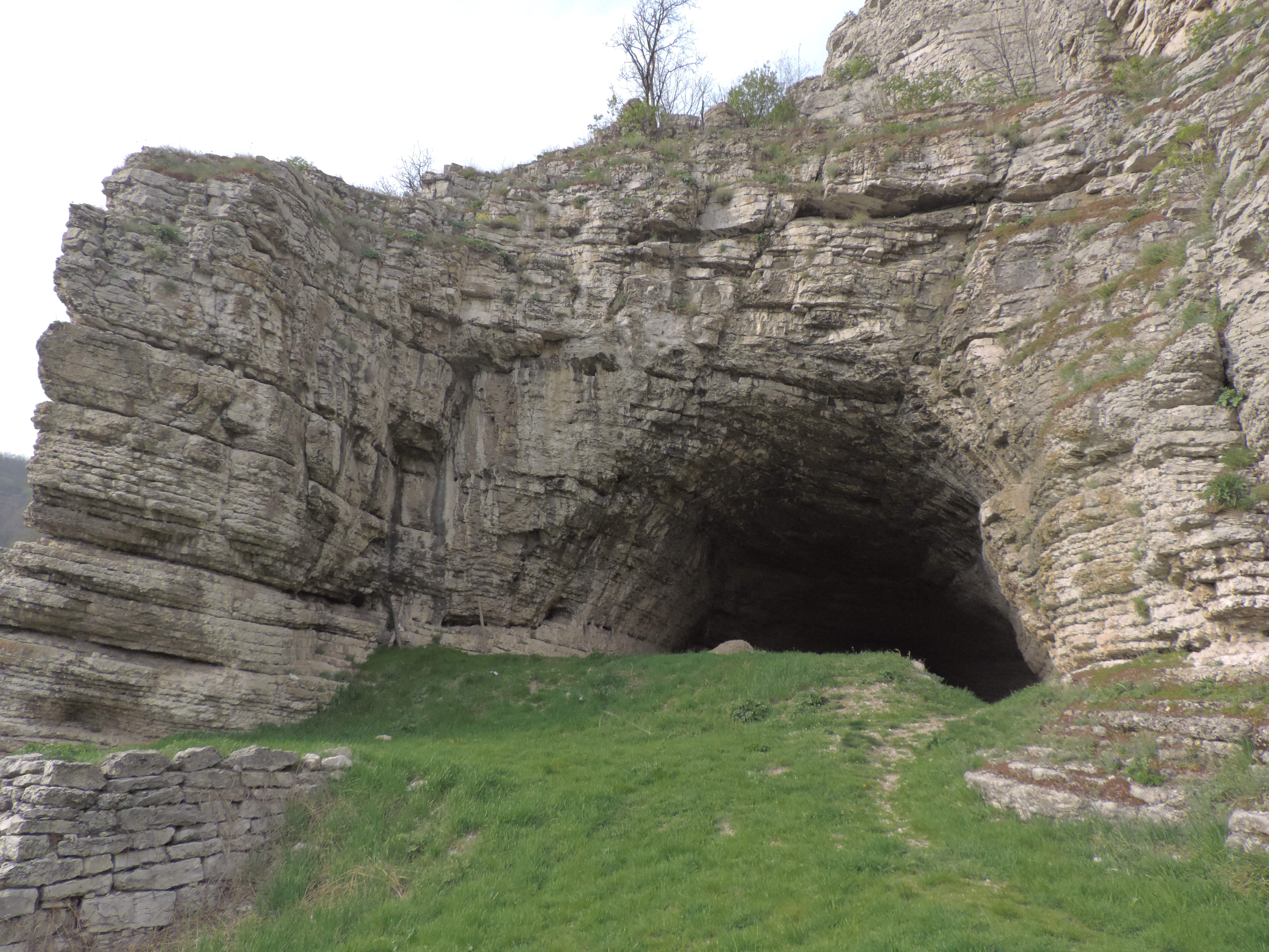 The entrance of the Kozarnika Cave, Balkan mountain, Dimovo Municipality, Bulgaria